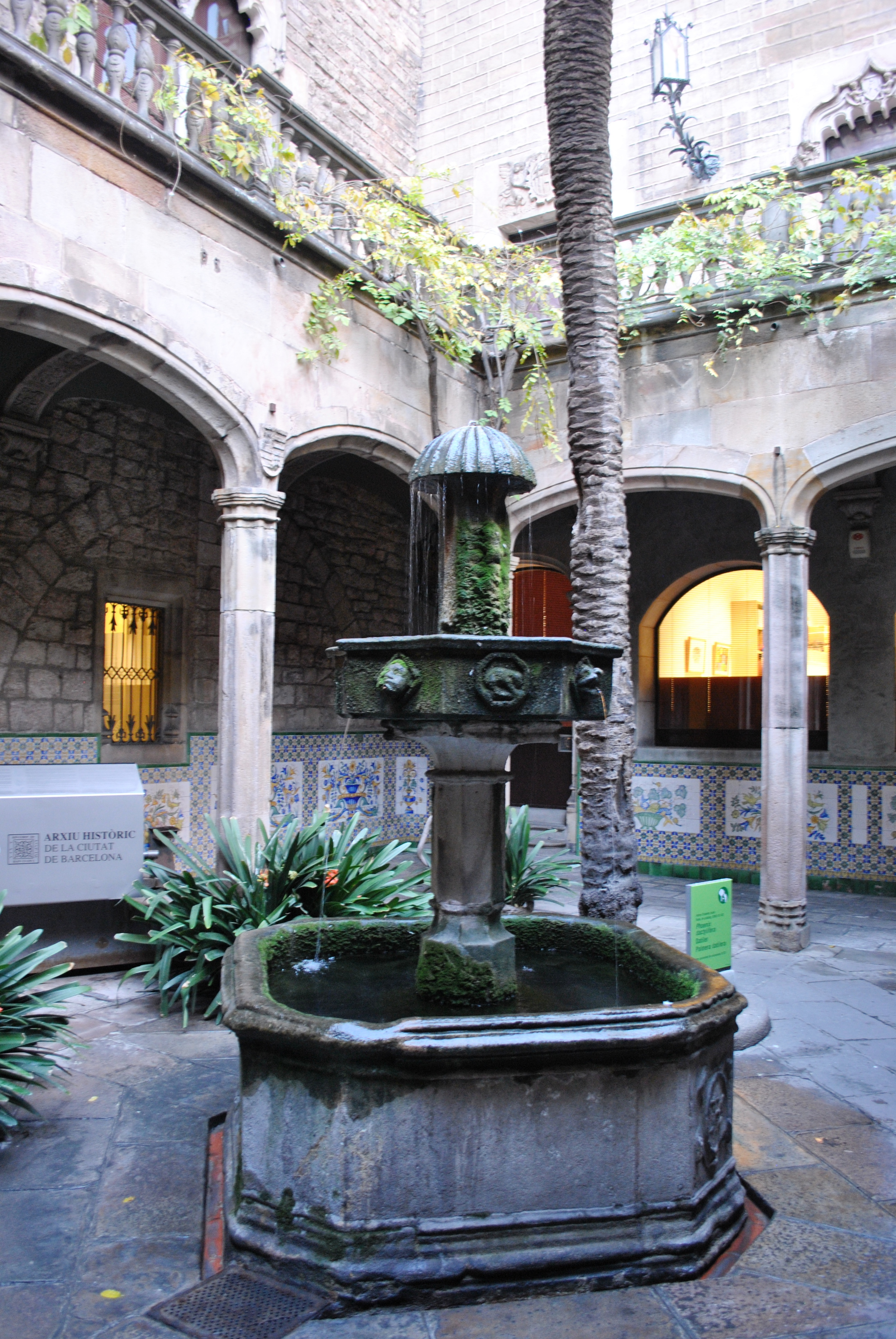 Dancing egg